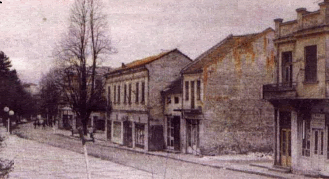 Kičevo, Macedonia